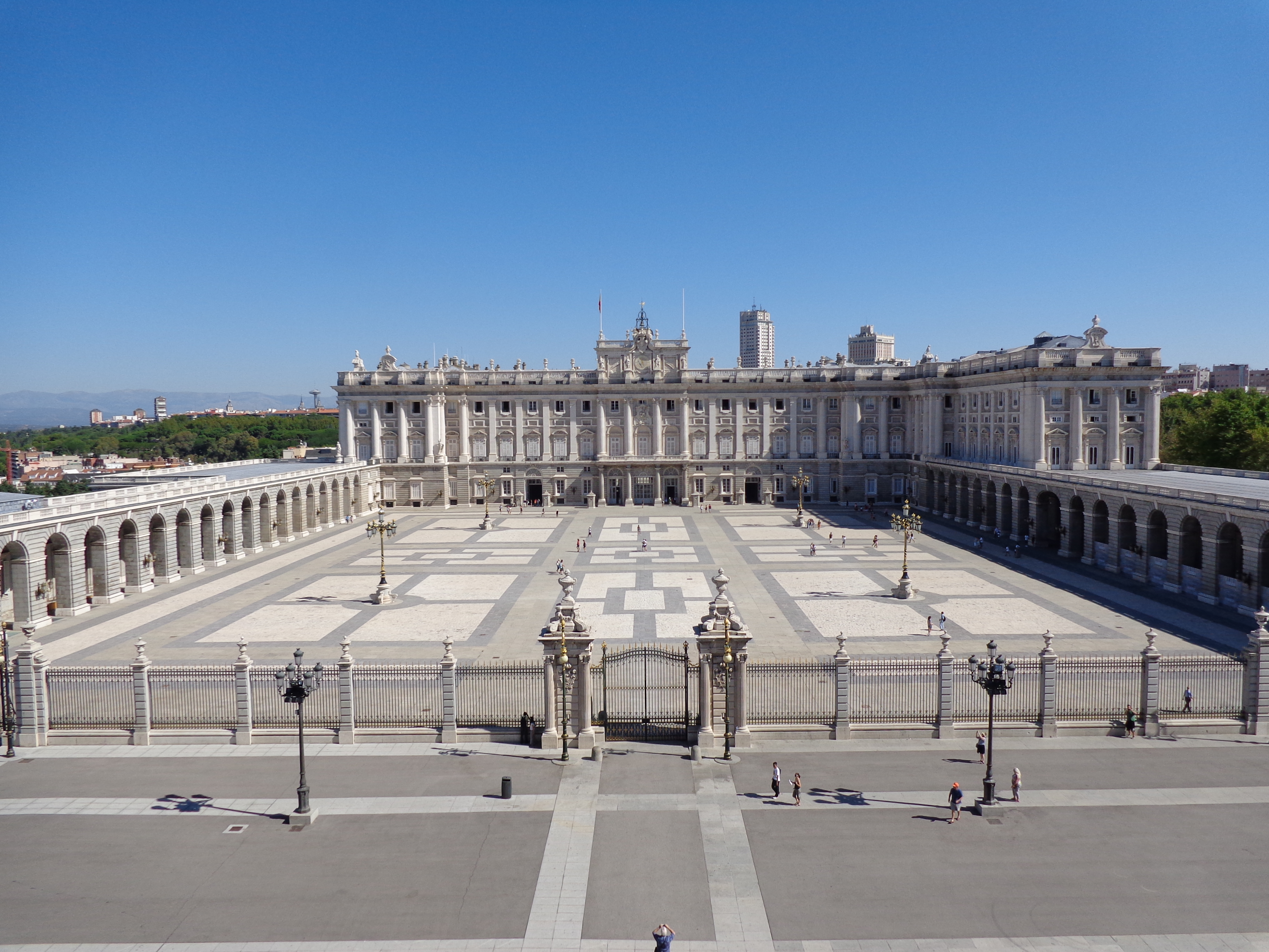 Royal Palace of Madrid